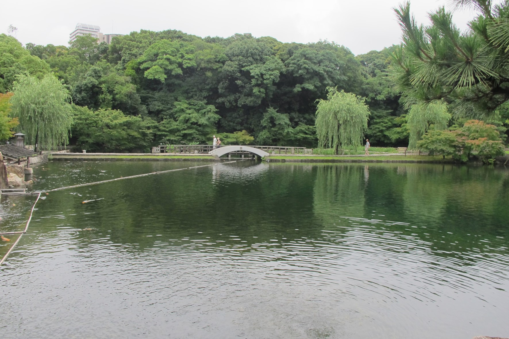 Tokugawa-en Westlake dam